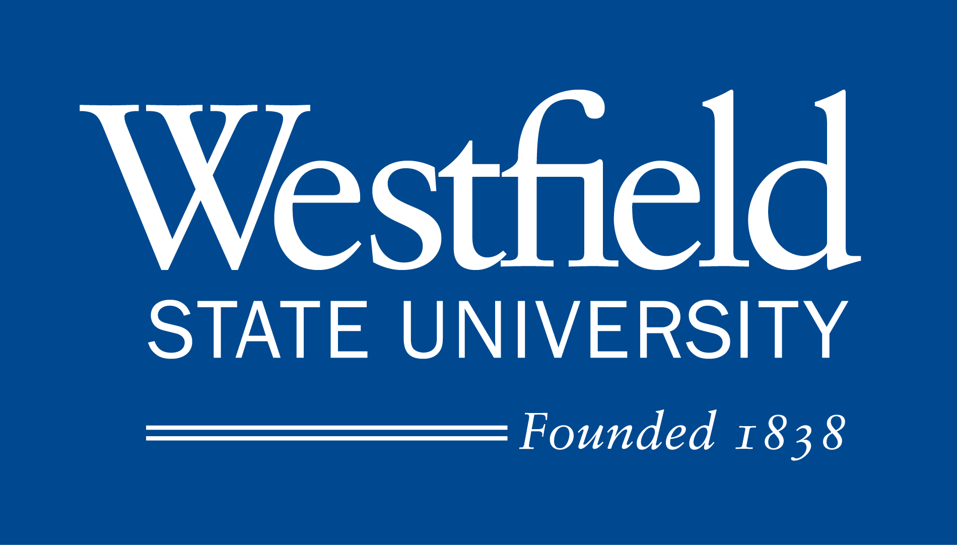 Westfield State University logotype (white on blue)